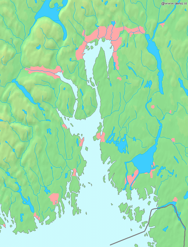 Oslofjorden, bay in Norway. Bounding box West 9.7°, South 58.9°, East 11.5°, North 60.1°. Center at 59°30′00″N 10°36′00″E / 59.50000°N 10.60000°E.